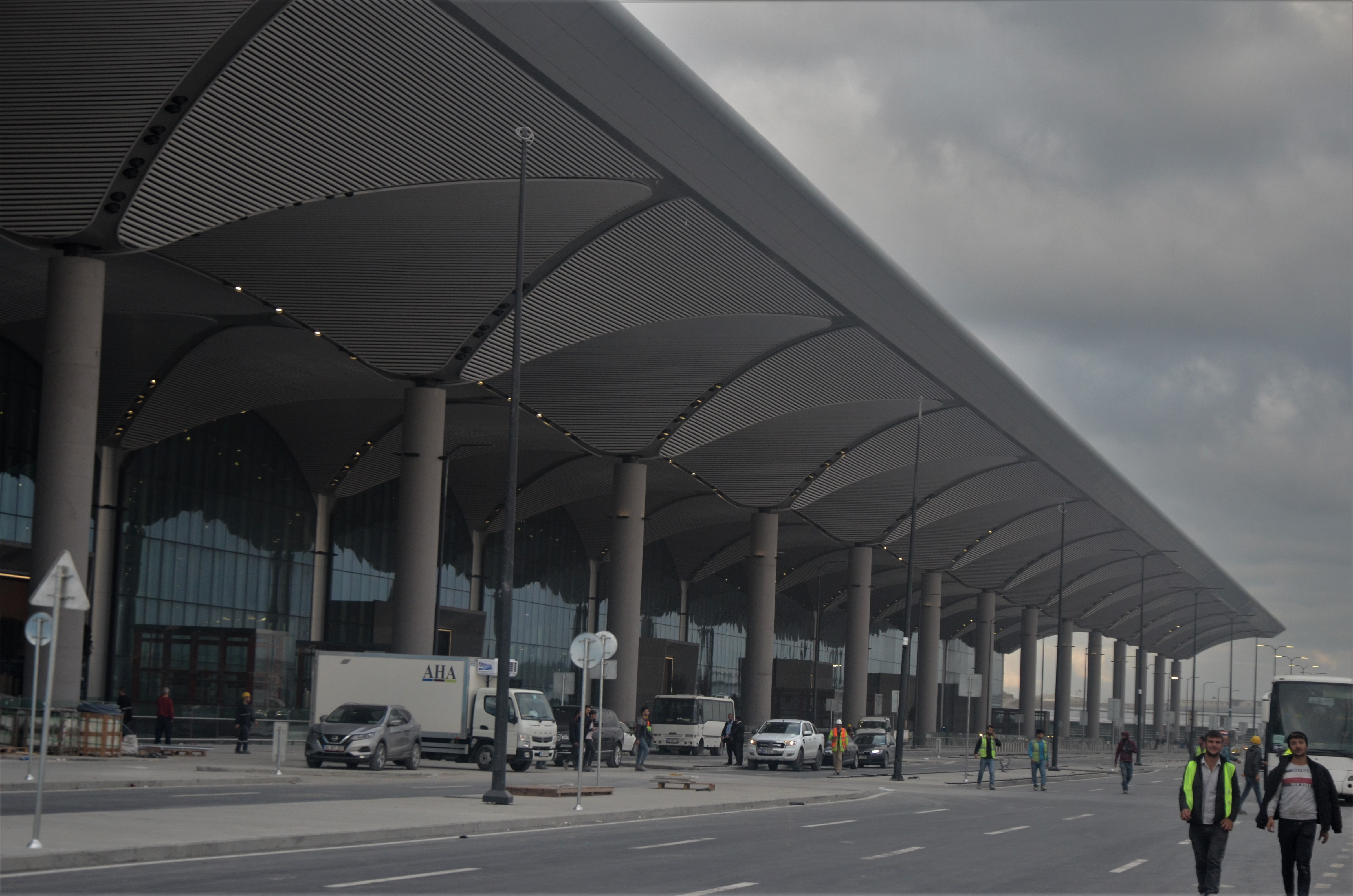 Terminal building of Istanbul Airport